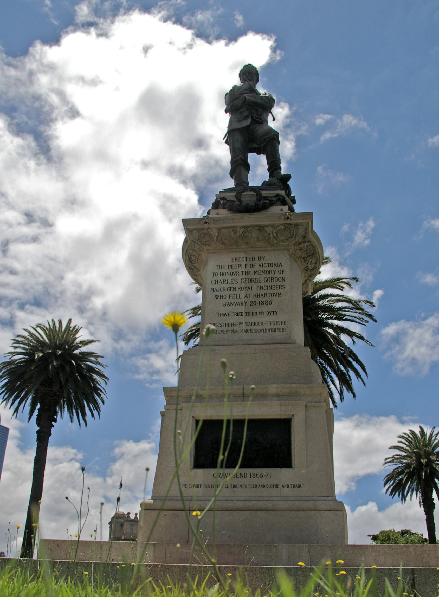 Photograph of the statue of Charles George Gordon in Gordon Reserve in Melbourne.